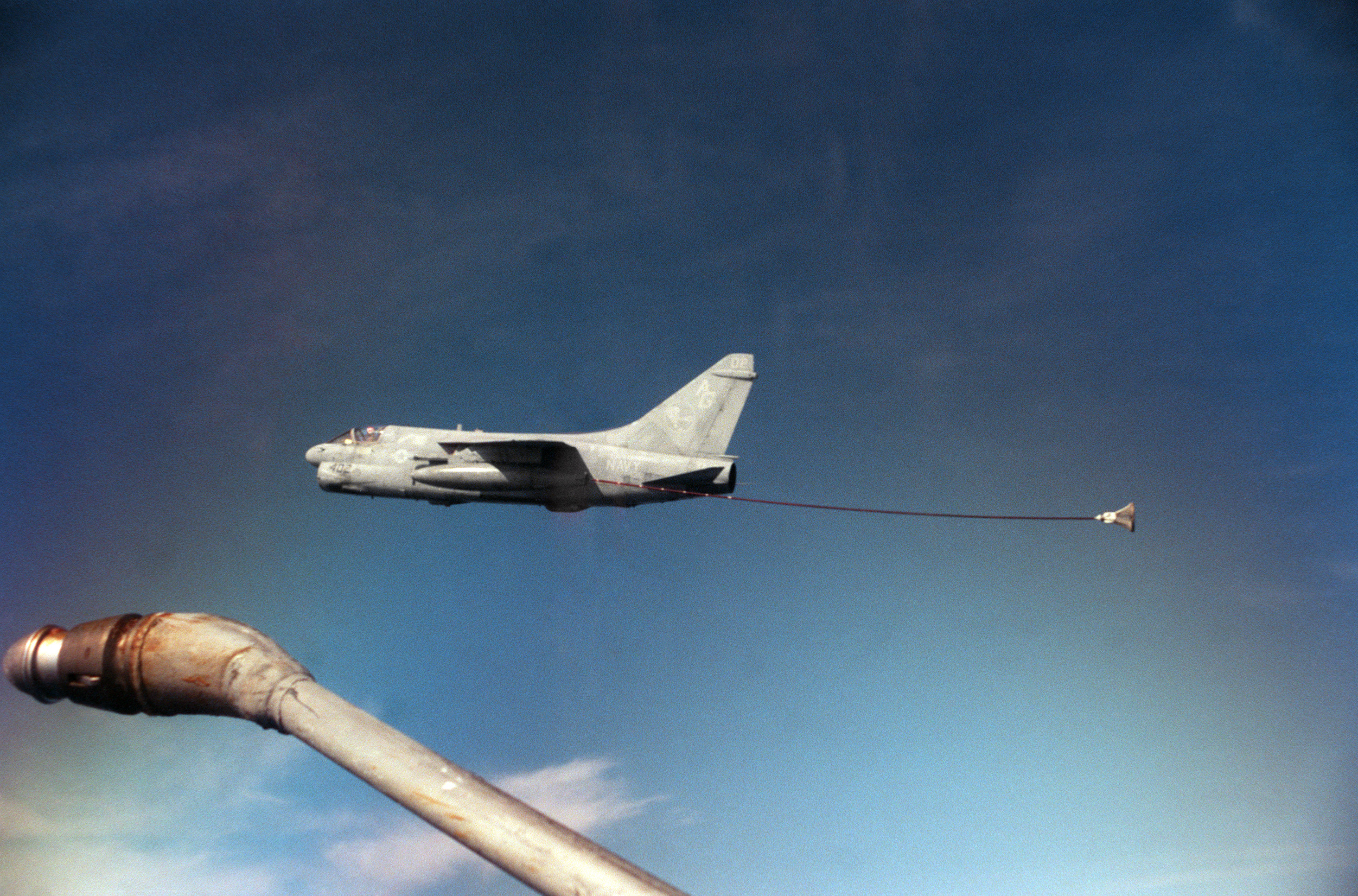 A U.S. Navy LTV A-7E Corsair II from attack squadron VA-12 Flying Ubangis trailing a refueling drogue on 1 January 1985. In the foreground is the refueling probe of another Corsair. VA-12 was assigned to Carrier Air Wing 7 (CVW-7) aboard the aircraft carrier USS Dwight D. Eisenhower (CVN-69) for a deployment to the Mediterranean Sea from 10 October 1984 to 8 May 1985.